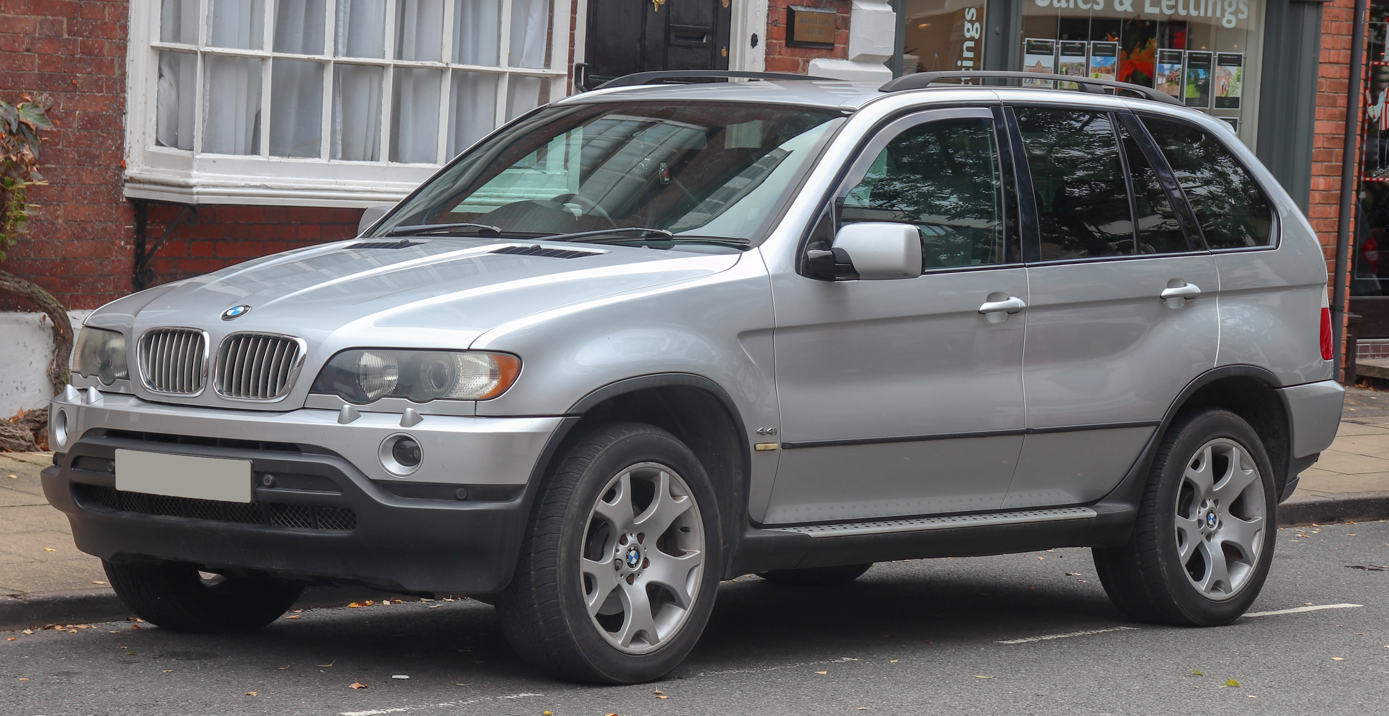 2002 BMW X5 Sport Automatic 4.4 Front Taken in Warwick